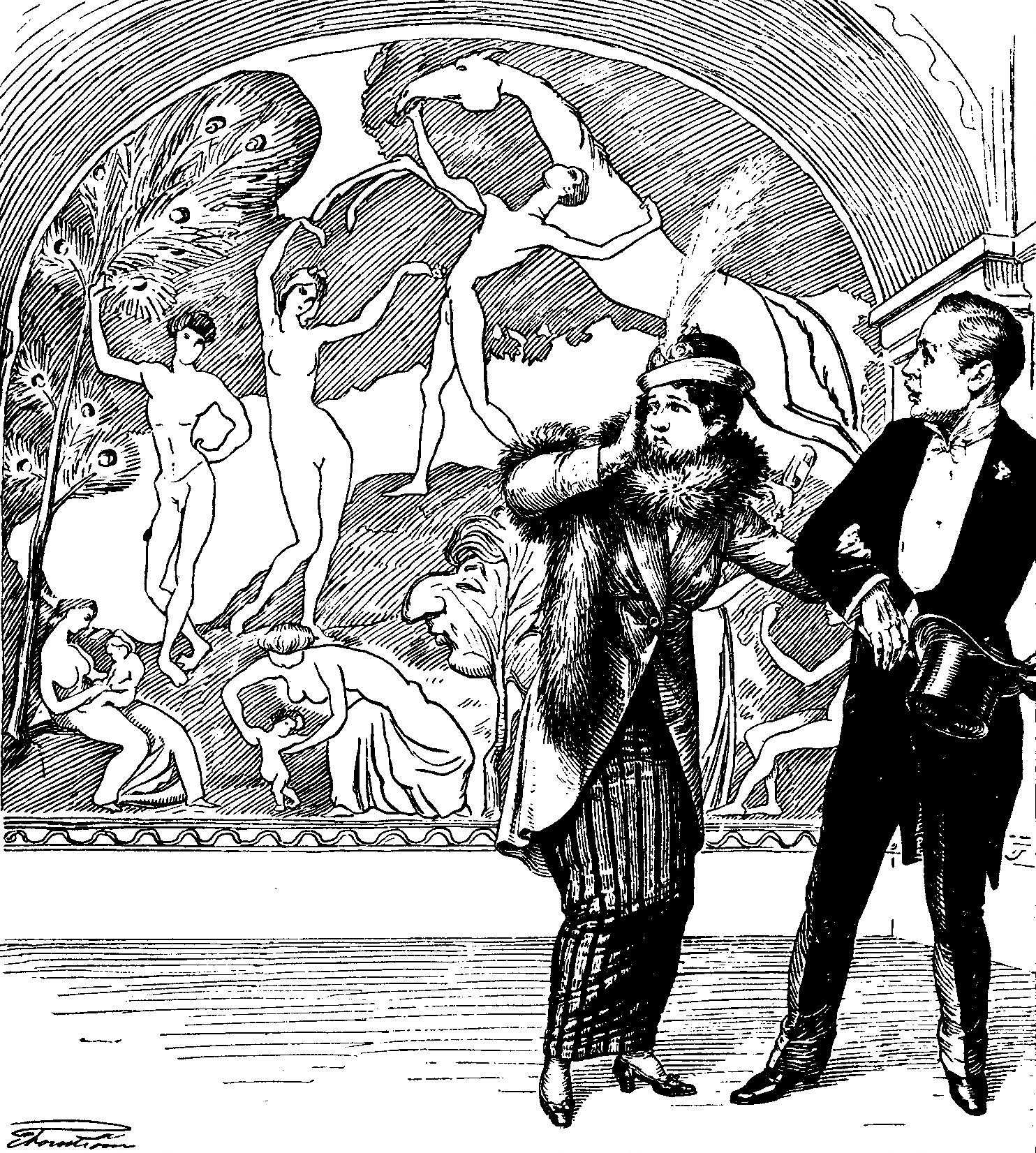 When civil marriage became more common in Sweden and the need for a stately hall manifested itself, a special marriage room was set up in the city hall of Stockholm. It was decorated by Isaac Grünewald, which inspired Edvard Forsström (in Puck) to this picture with the text "— No, Karl, let's go — they can become like that!"